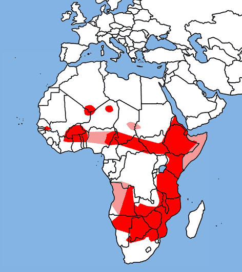 Untagged range map of Lycaon pictus